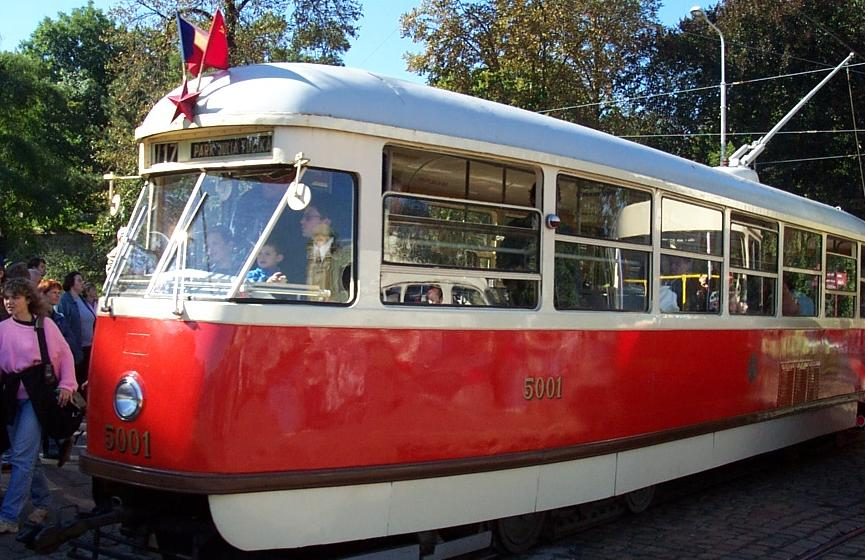 Historical T1 tram in Prague